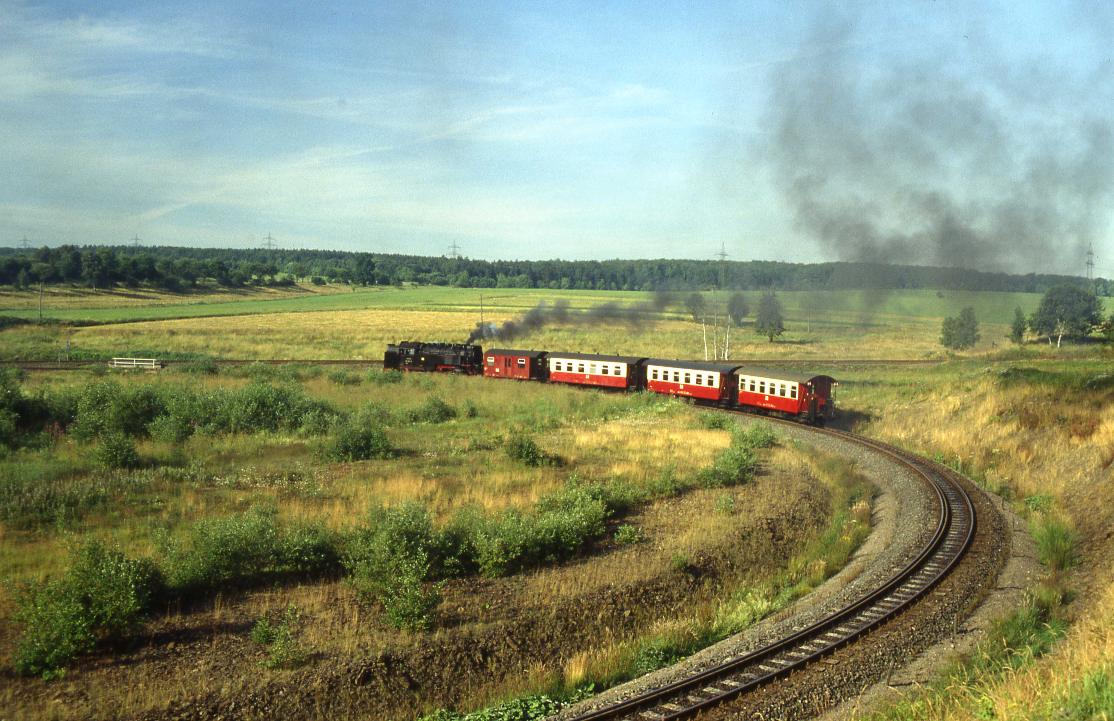 Hartz steamtrain taking the loop at Stiege